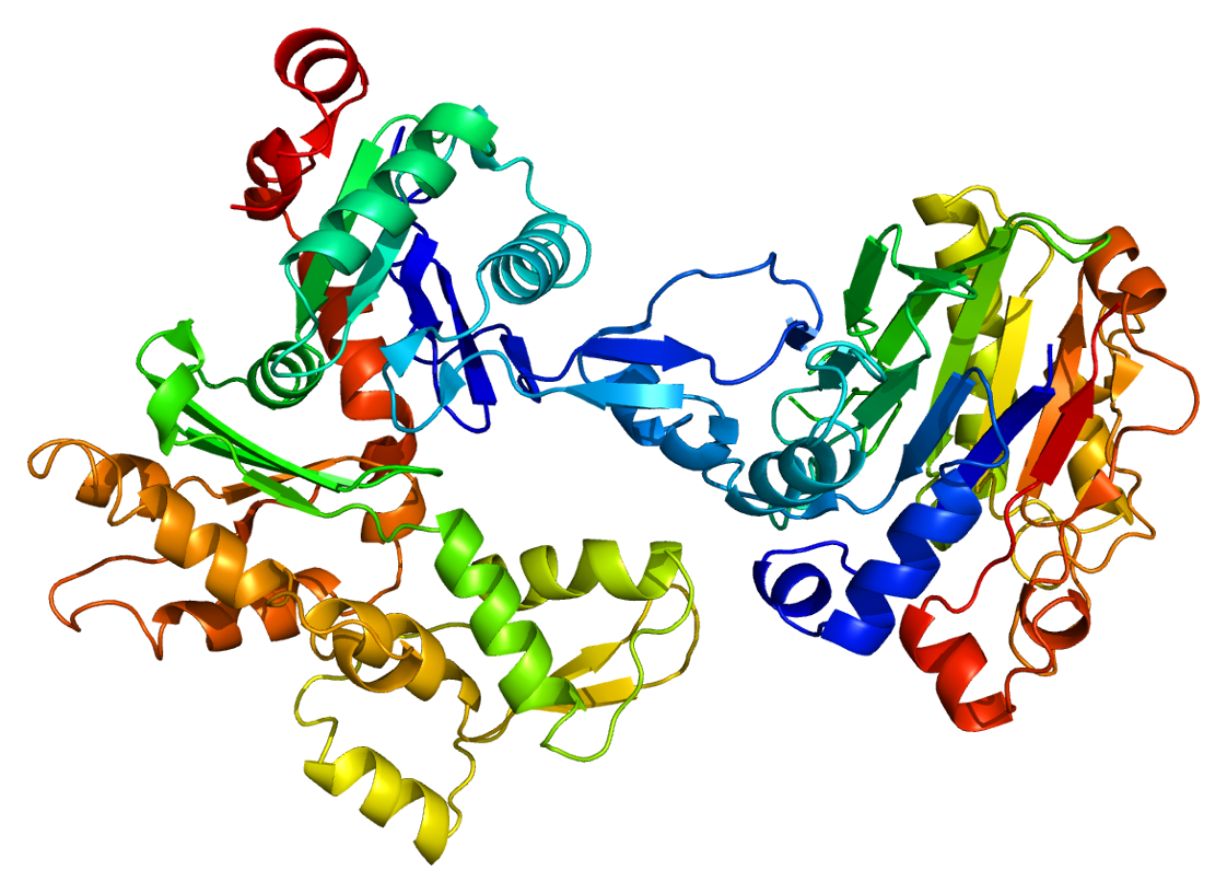 Structure of the ACTA2 protein. Based on PyMOL rendering of PDB 1atn.